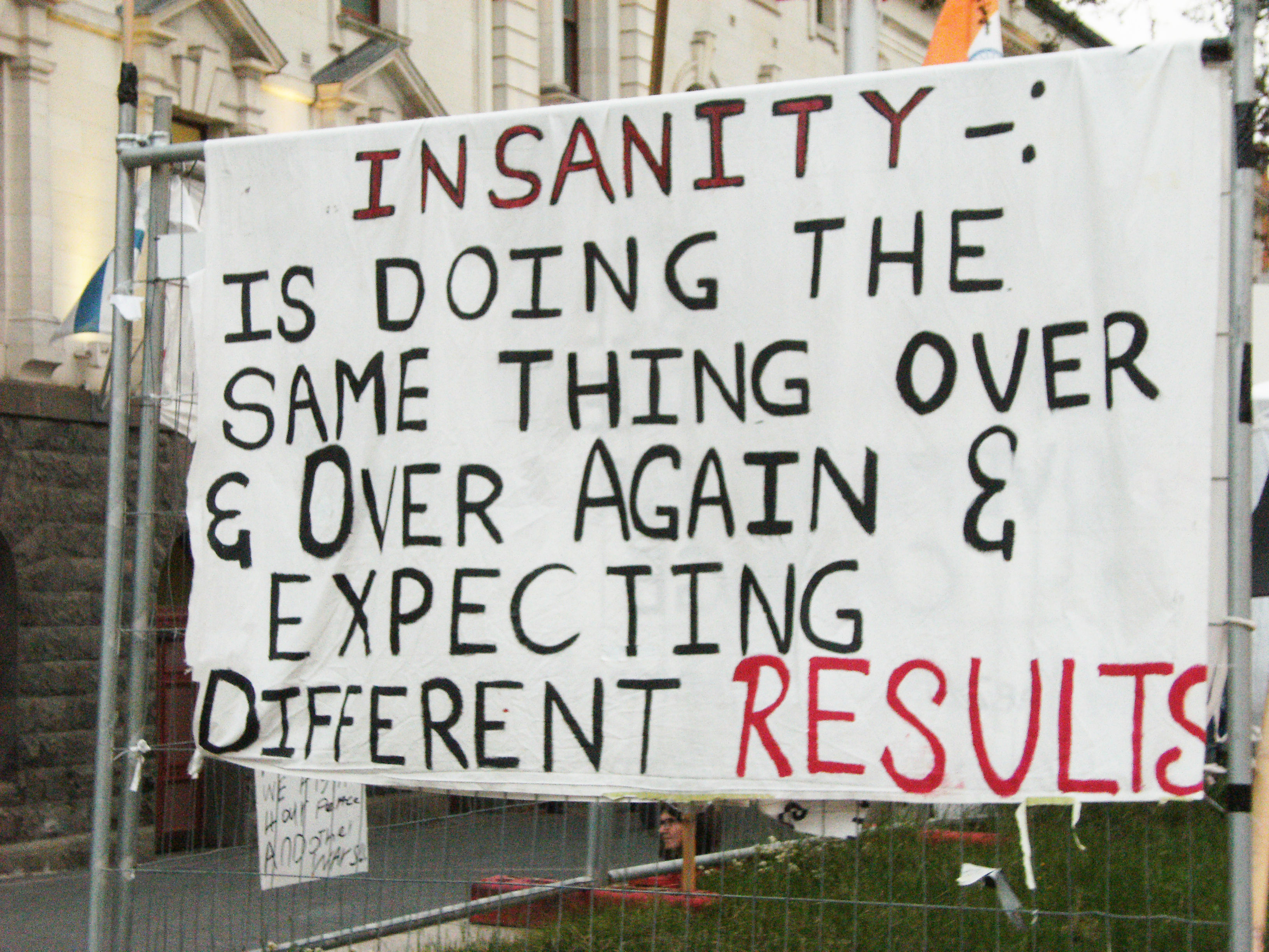 A protest sign that was hanging on a fence at the Occupy Auckland Protest camp. "Insanity is doing the same thing over & over again and expecting different results."